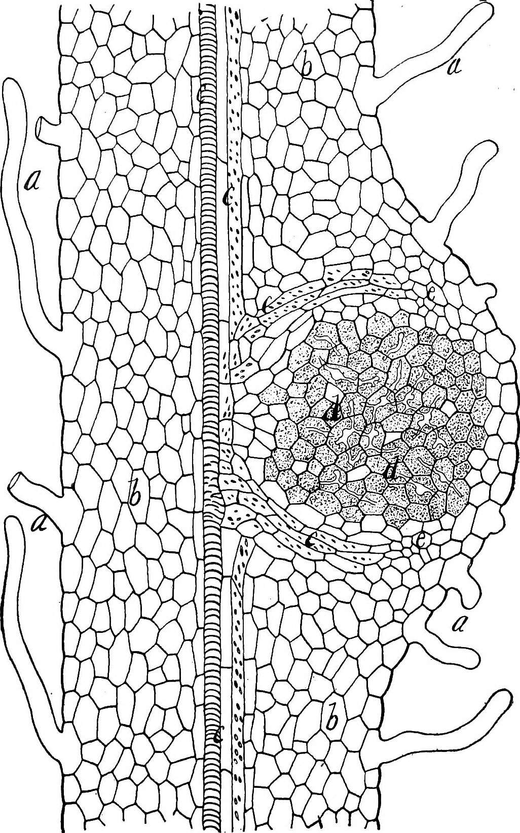 Trifolium pratense Rhizobium root nodule. FiG. 5o.—Longitudinal section through red clover rootlet, showing tubercle formation due to the root nodule microbe, Rhizobium mutabile. The tubercle is only partiaUy developed, a. root hairs. These do not develop on the nodule. b, the normal root parenchyma, c, vascular tissue, d, infected area, also showing the infectmg strands (Infectionsfäden). The cells are filled with bacteria, e. apical areas, the growmg areas of the tubercle.